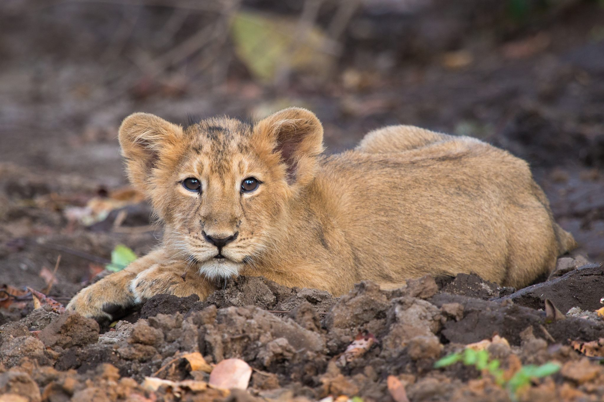 Individual from Gir Forest National Park